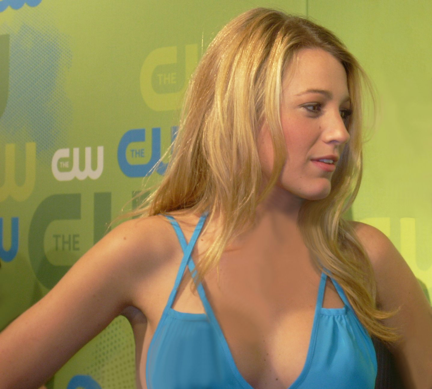 CW Upfront Presentation: Green Carpet Arrivals, Madison Square Garden, New York City - May 21, 2009